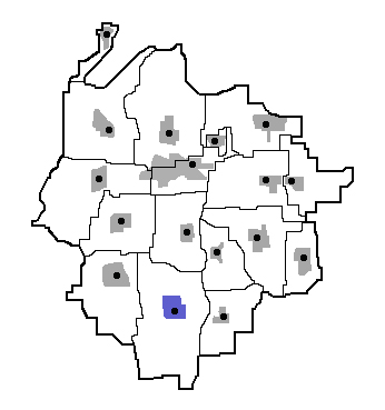 The location of Vallstedt, municipality of Vechelde, in Lower Saxony, Germany.